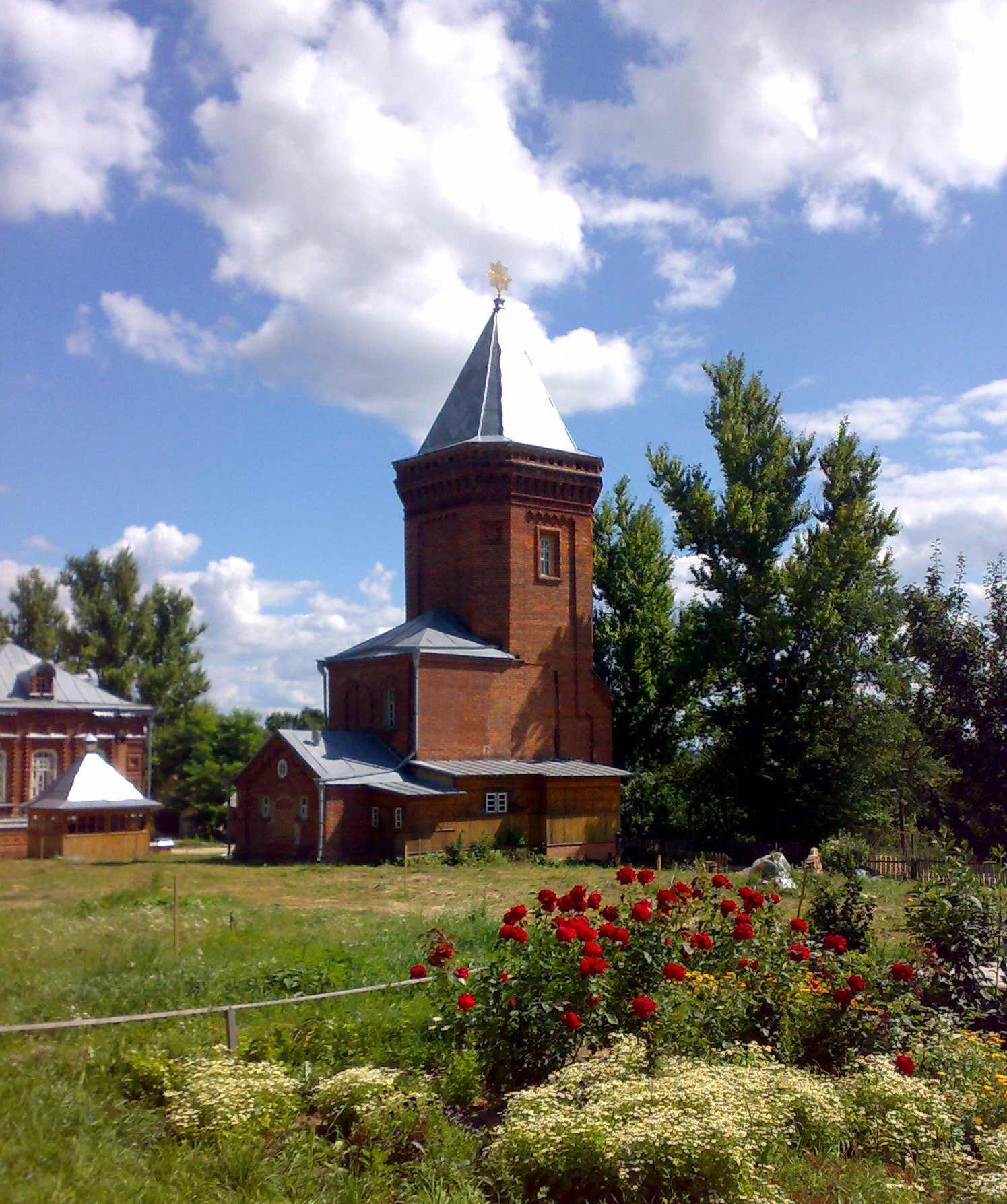 took this photo using my mobile, in July 2008, in Shamordino.